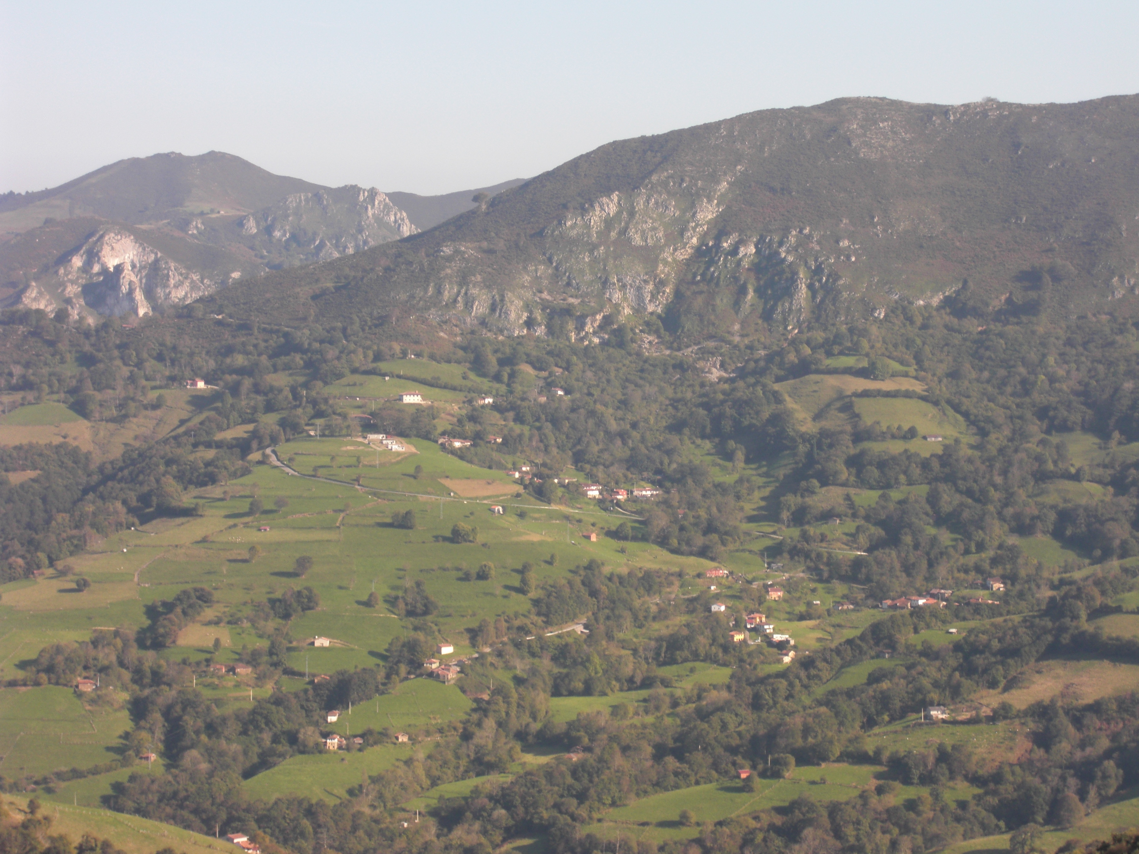 Panorámica Llerandi